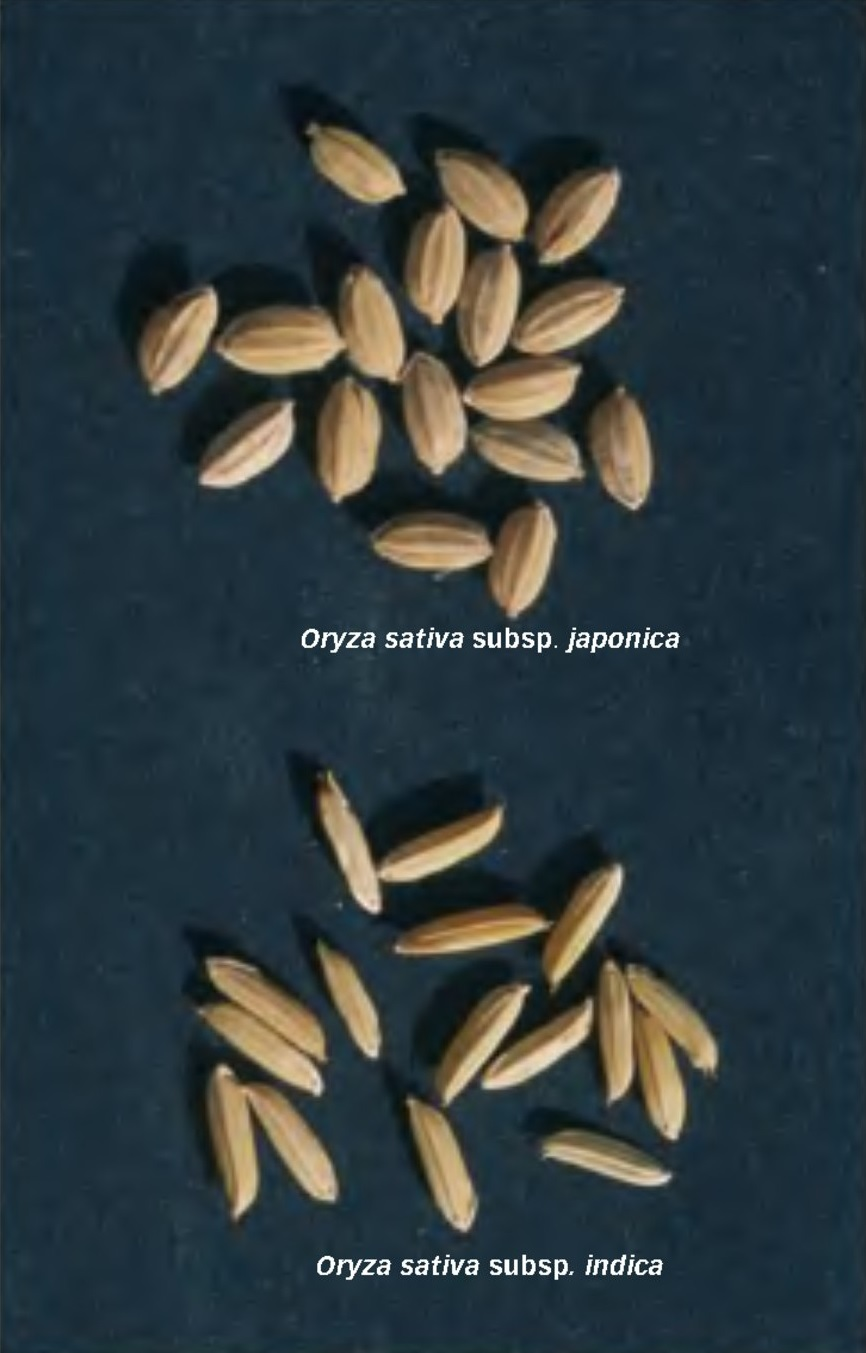 Grains of Oryza sativa subspecie japonica (top) and subspecie indica (bottom).